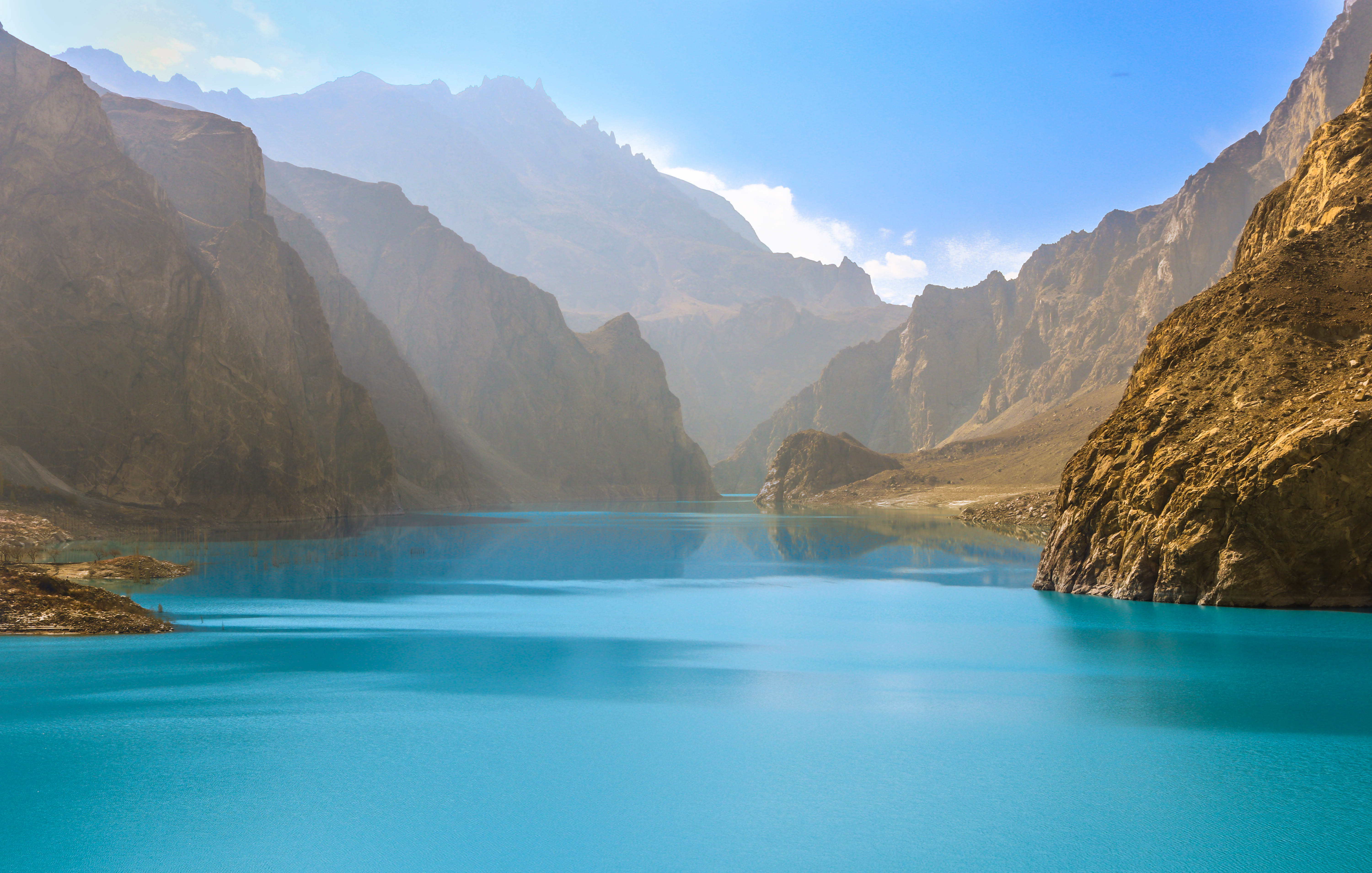 A beautiful site created by a disaster.